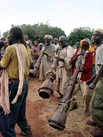 Berta people playing trumpets in a wedding (Komosha, western Ethiopia) by Ruibal.